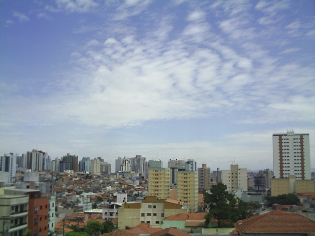 São Caetano do Sul.